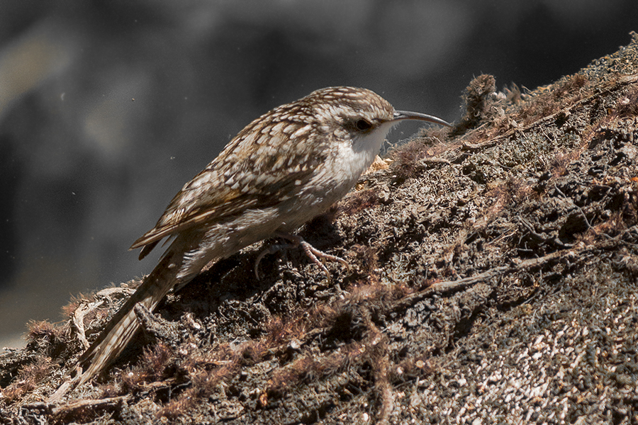 The specie Bar-tailed Treecreeper had been photographed from Bara Patthar, Nainitaal district of Uttarakhand on 01.12.2014 during the bird photography trip of GoingWild.